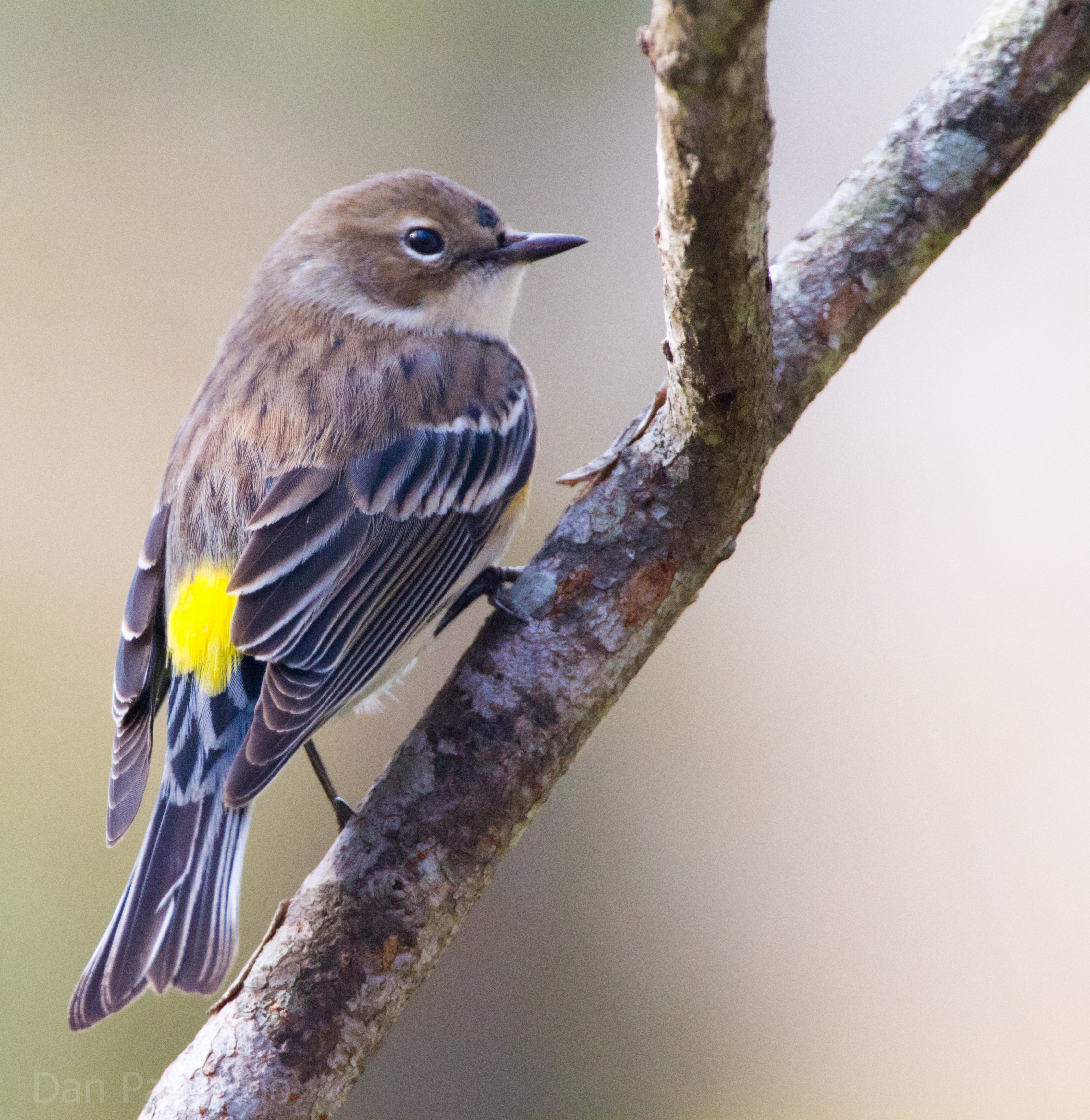 Yellow-rumped Warbler in Houston, Texas